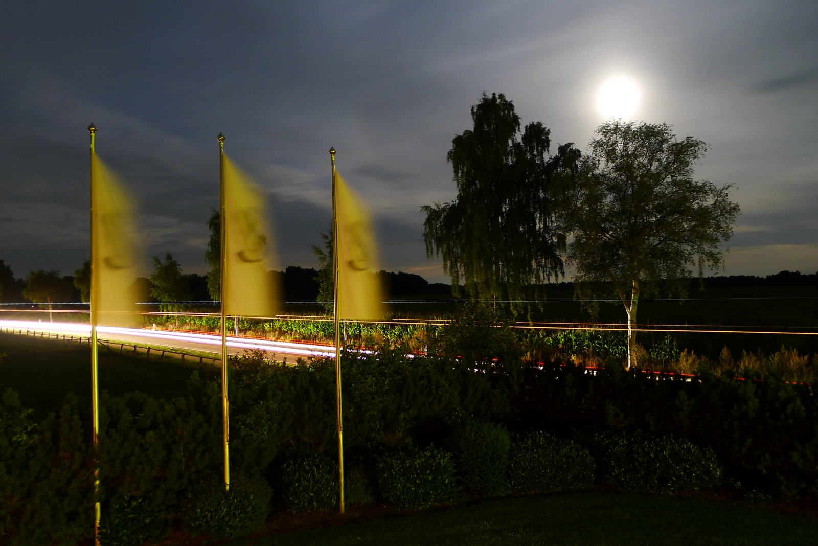 Flags from the hotel fluttering in the breeze at night. Groß Meckelsen, nr Sittensen, Germany